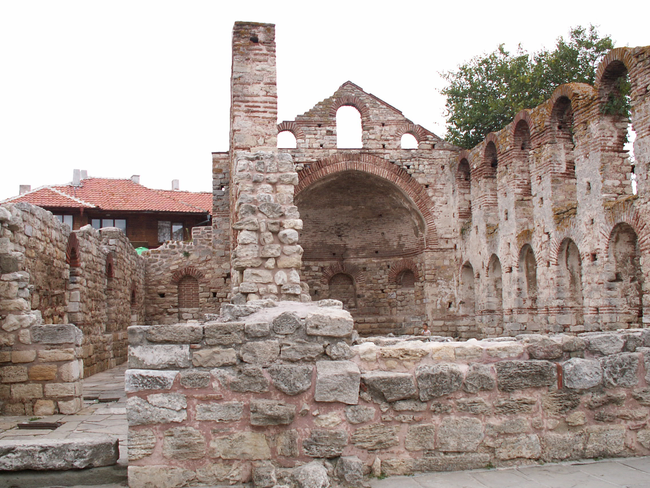 Ruins of the Basilica in Nesebar